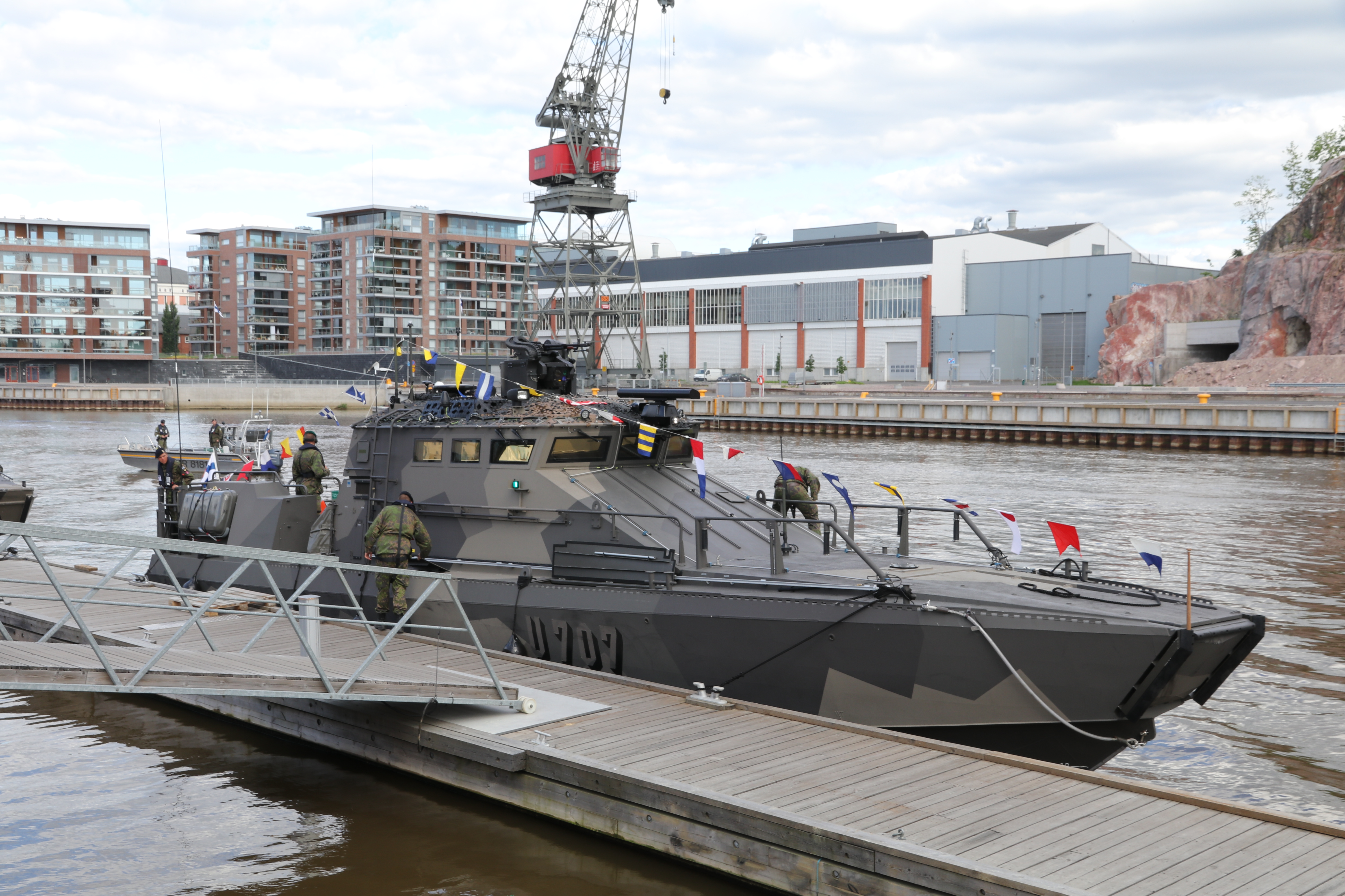 Finnish navy Jehu U707 landing craft. Photographed in 2016 Finnish defence forces flag day equipment exhibition in Turku Forum Marinum.